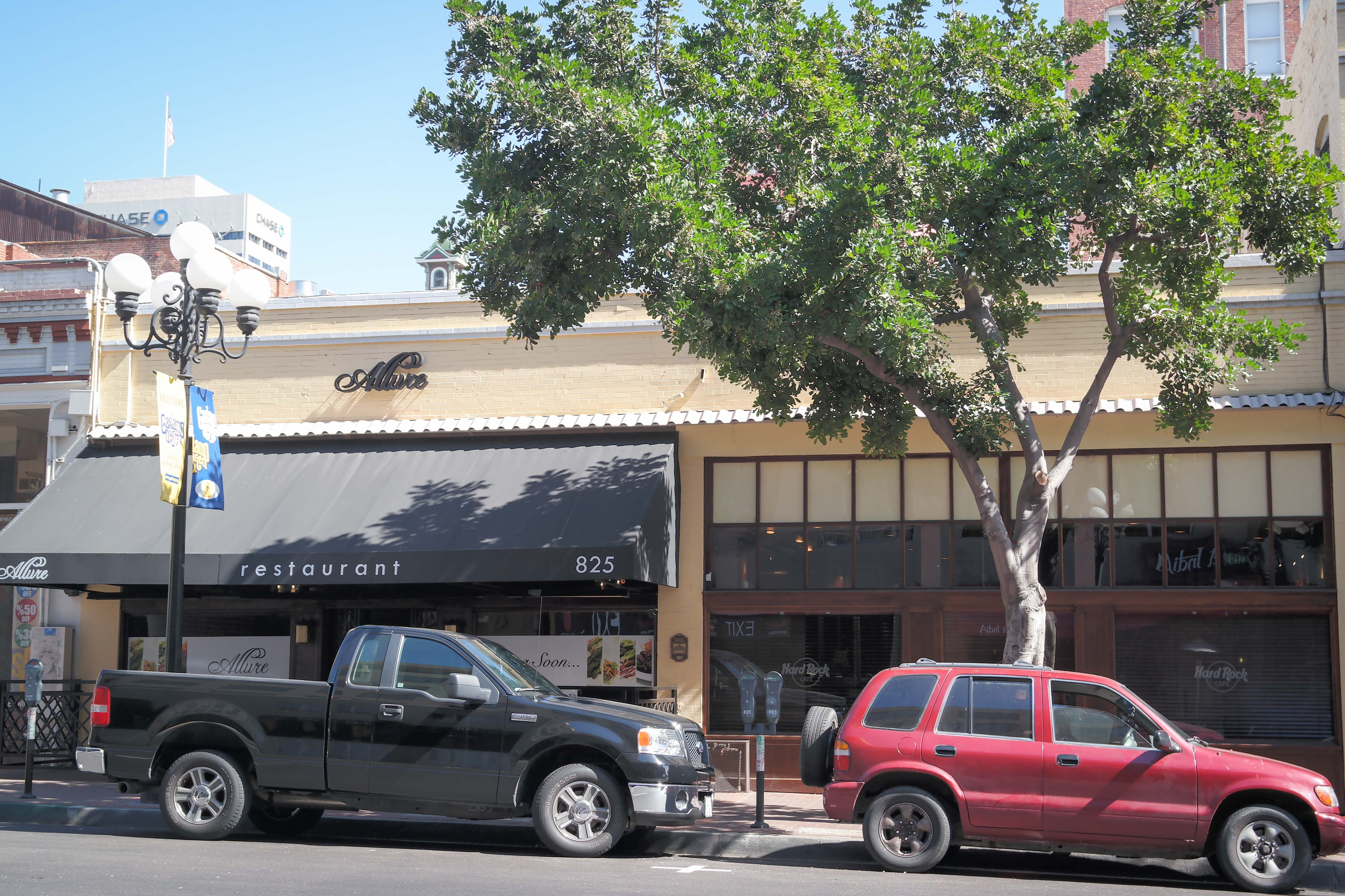 Historic Building Survey plaque: "16 Exchange Club, 1905. This square one-story brick building has been used over the years by retail businesses. Part of it housed the Exchange Cocktail Lounge. It also has been a Mexican food restaurant and a card room. The other part of the building has been leased for use as a barber shop and pawn shop."